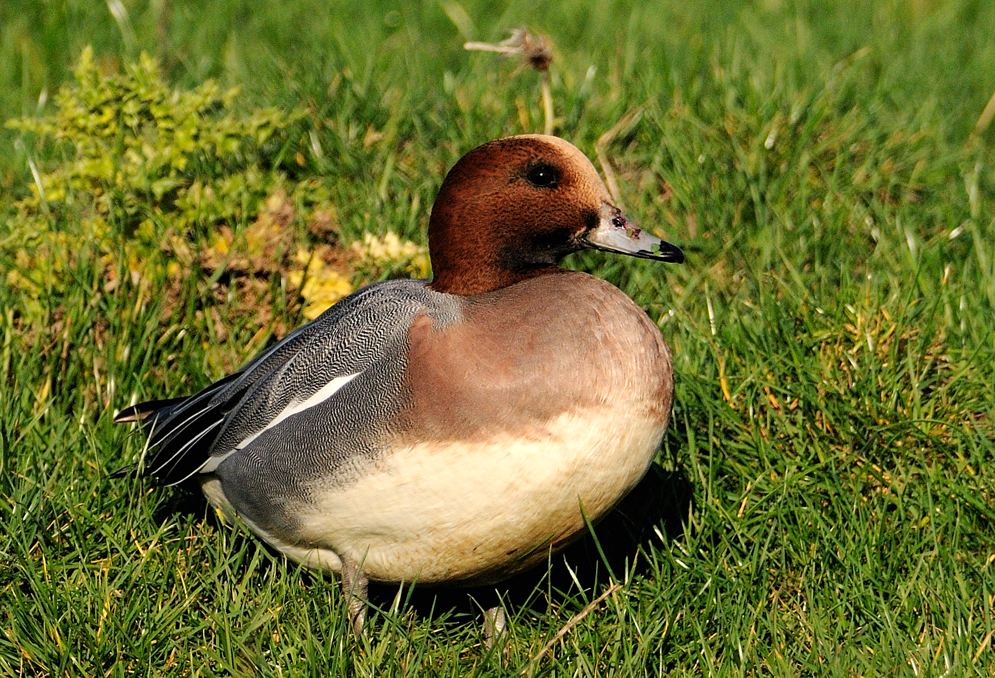 Anas penelope, male. NWT Cley Marshes, Norfolk, UK.